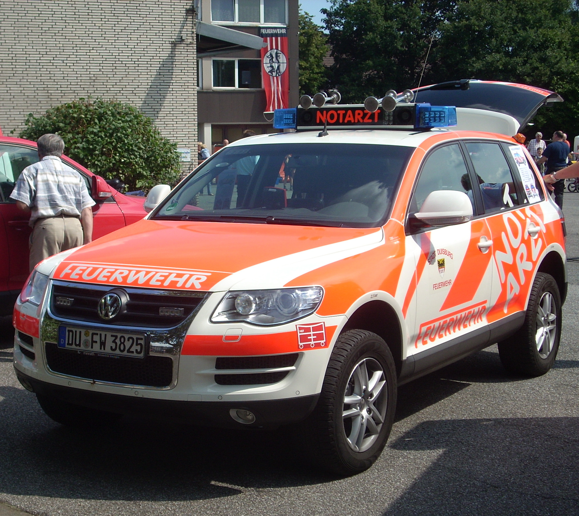 new rapid response car of the professionell fire brigade Duisburg, Fire Station 72 Wedau